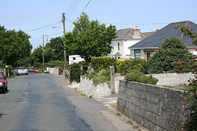 Kehelland. Kehelland is a linear straggle of a village northwest of Camborne.